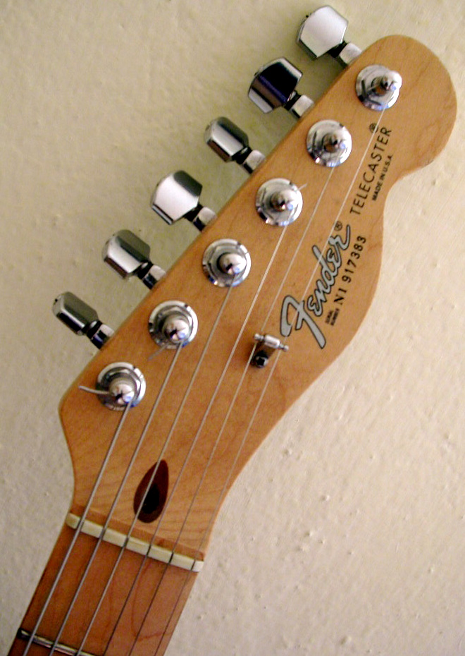 Description: 1991 Fender Telecaster head Made by User:Maxp